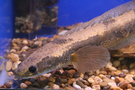 A "Mekong River" cobra snakehead fish (Thai: ปลาช่อนงูเห่าแม่น้ำโขง) or Channa auroflammea at the 20th Pramong Nomklao fish show event at the Future Park Rangsit, Thailand, in July 2008. Picture taken by myself. Until 2019, this Mekong population was included in Channa marulius